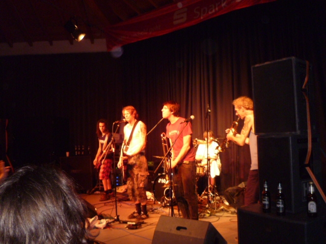 Rantanplan live at the Rock 'em festival in Neunkirchen Saar (Stummsche Reithalle)